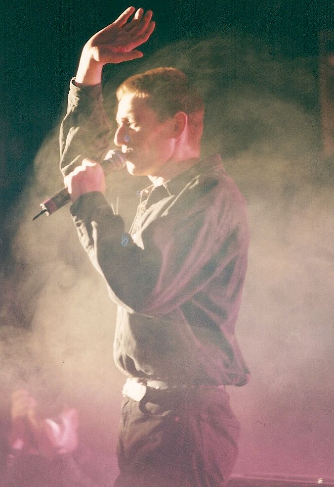 Maleńczuk in Voo Voo concert